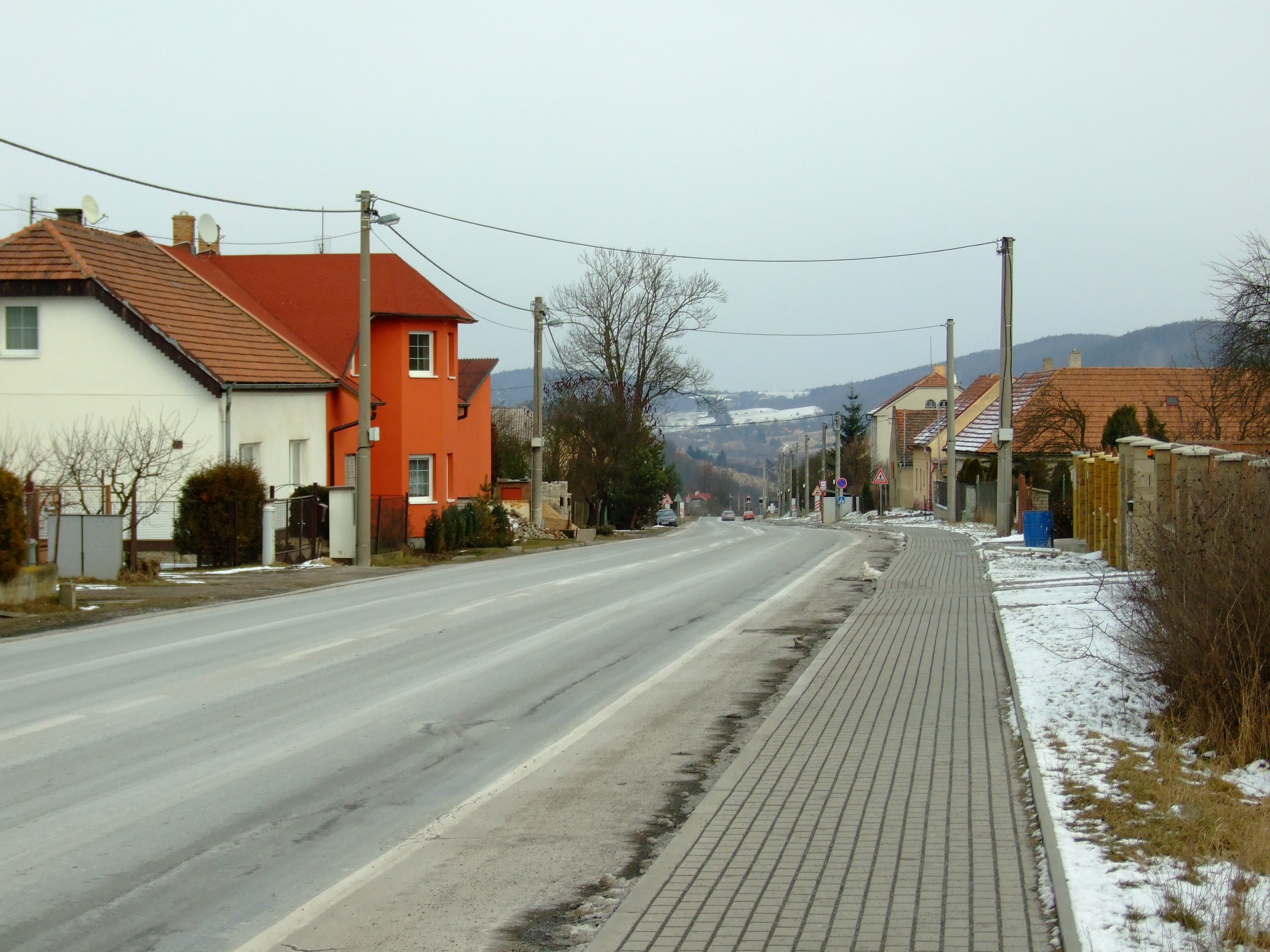 Thoroughfare (old main road from Prague to Pilsen) in village of Vráž near town of Beroun, Central Bohemian Region, Czech Republic.help